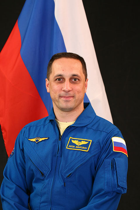 Portrait of Cosmonaut Anton Nikolaevich Shkaplerov